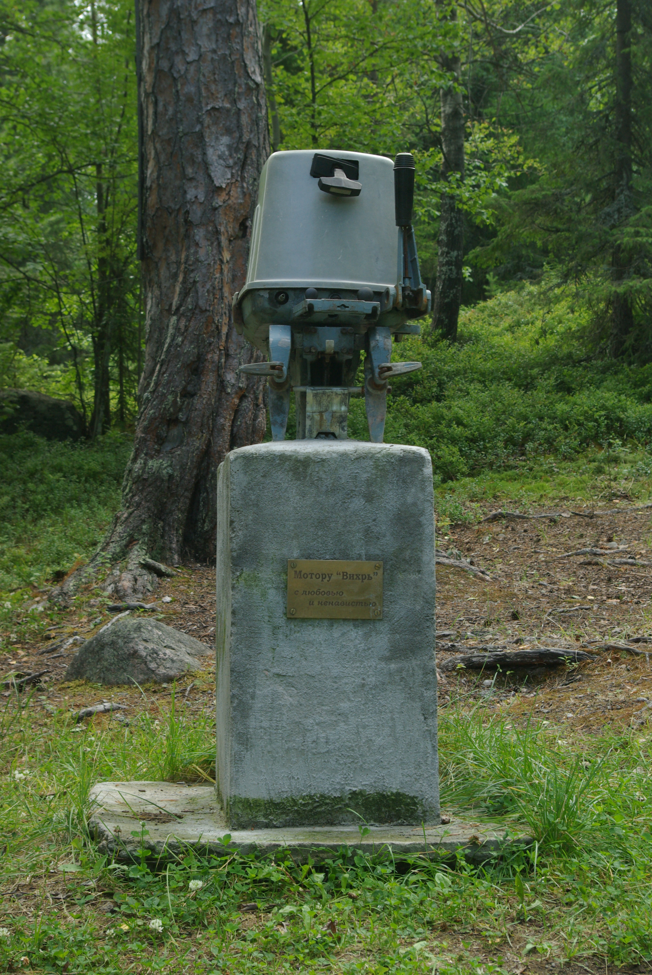 Monument to the boat motor "Whirlwind" at the White Sea Biological Station of the Zoological Institute of the Russian Academy of Sciences